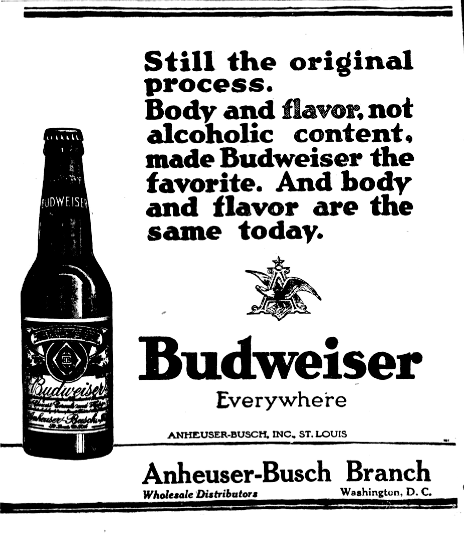 Newspaper ad for Budweiser from 1922.